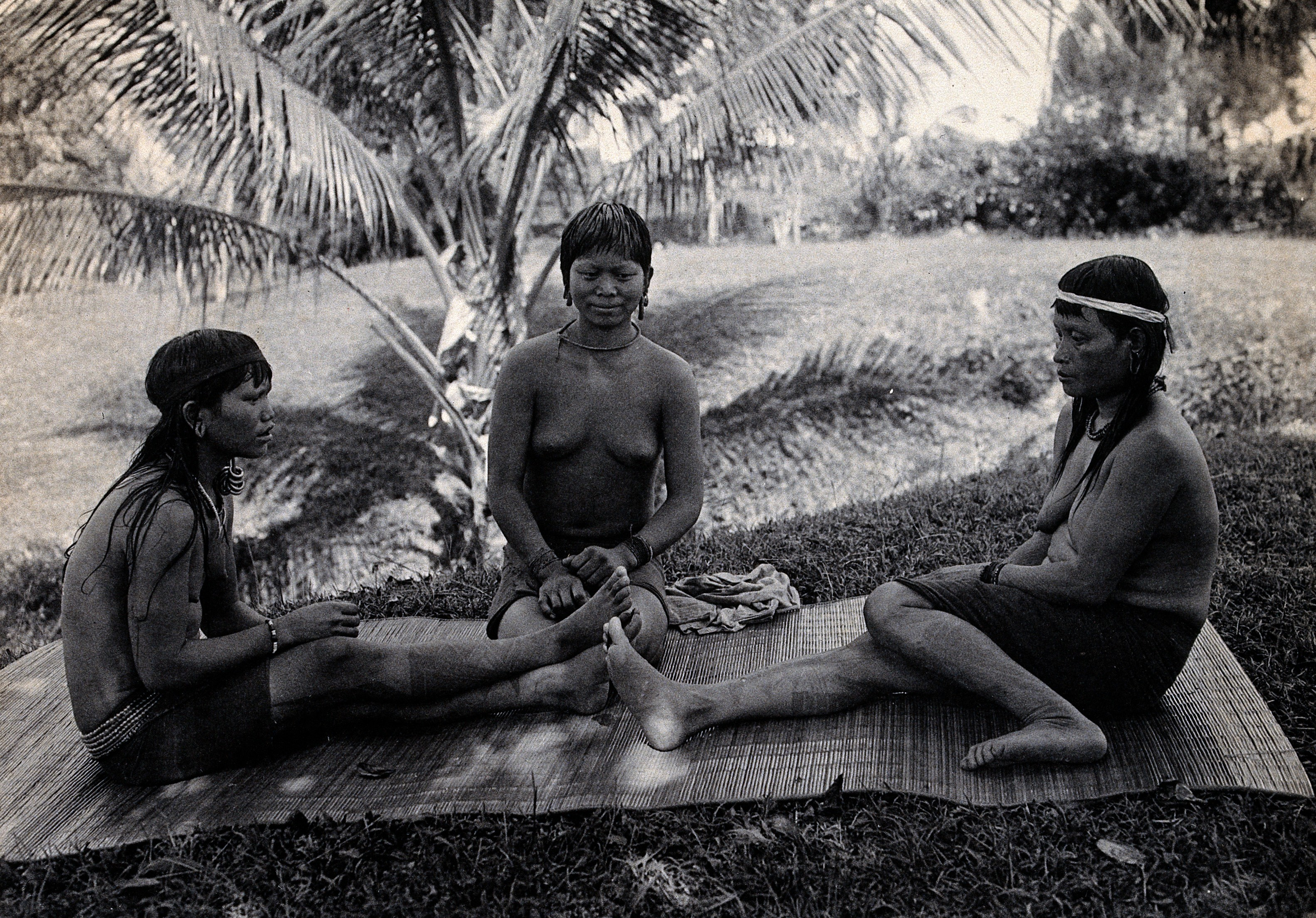 Sarawak: three native Kalabit women. Photograph. Iconographic Collections Keywords: Tribe; Population Groups; Borneo; Tribal; Charles Hose; Anthropology; Malaysia; Ethnography